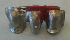 dental crown and dental bridge with Post-solder_index